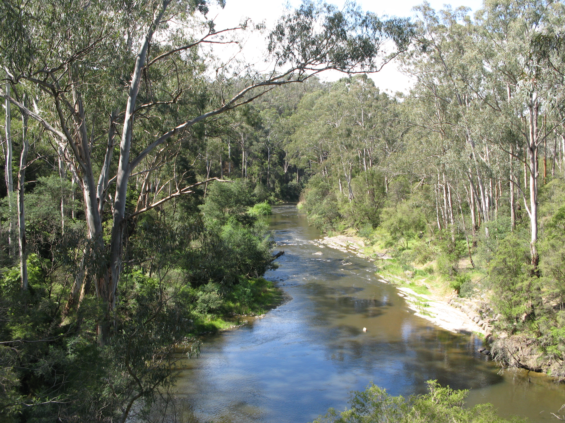 The Yarra River at Pound Bend near the eastern entrance of the tunnel, looking north. Taken by Nick carson in October 2008.